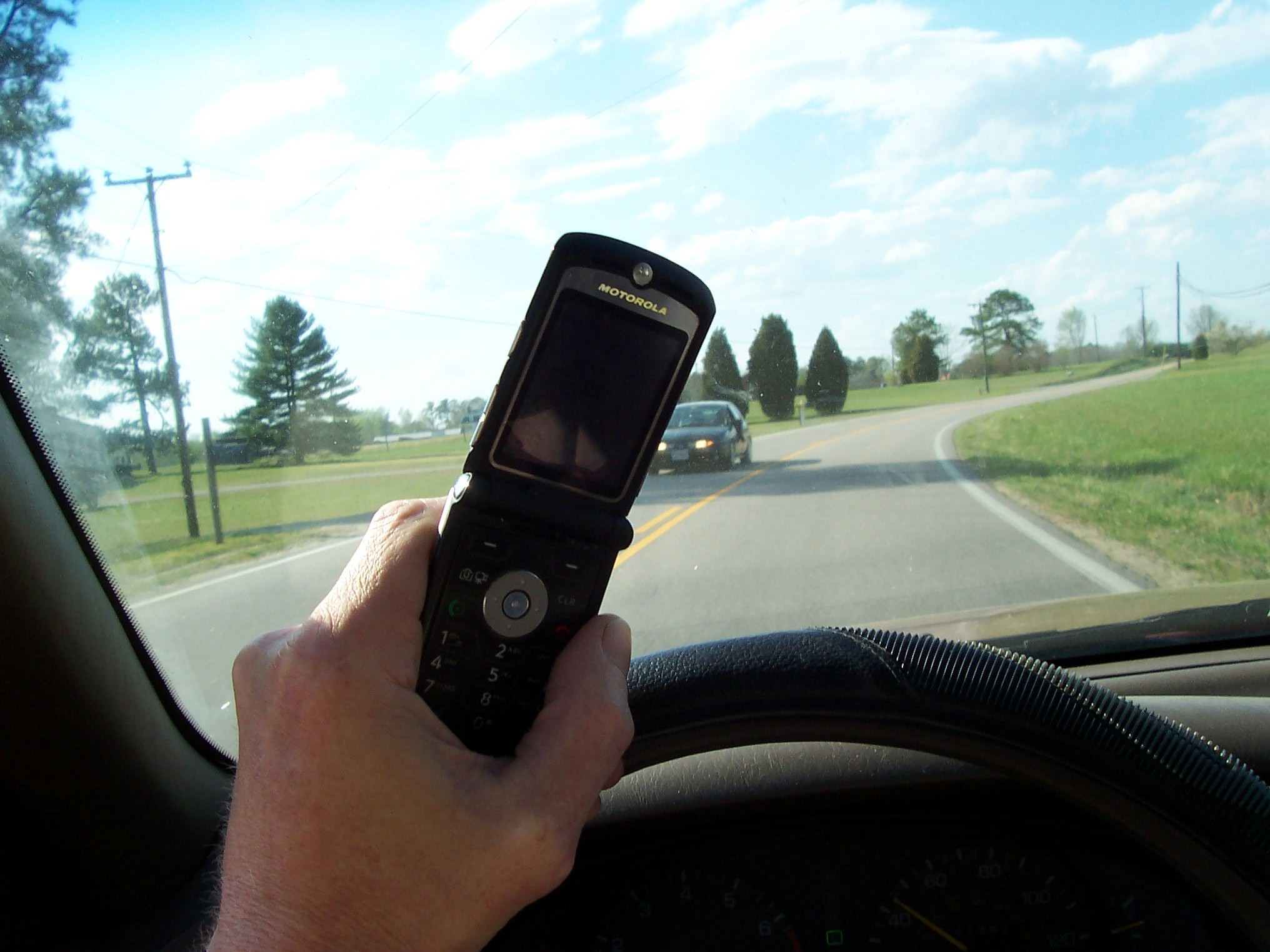 Person using cell phone while driving.